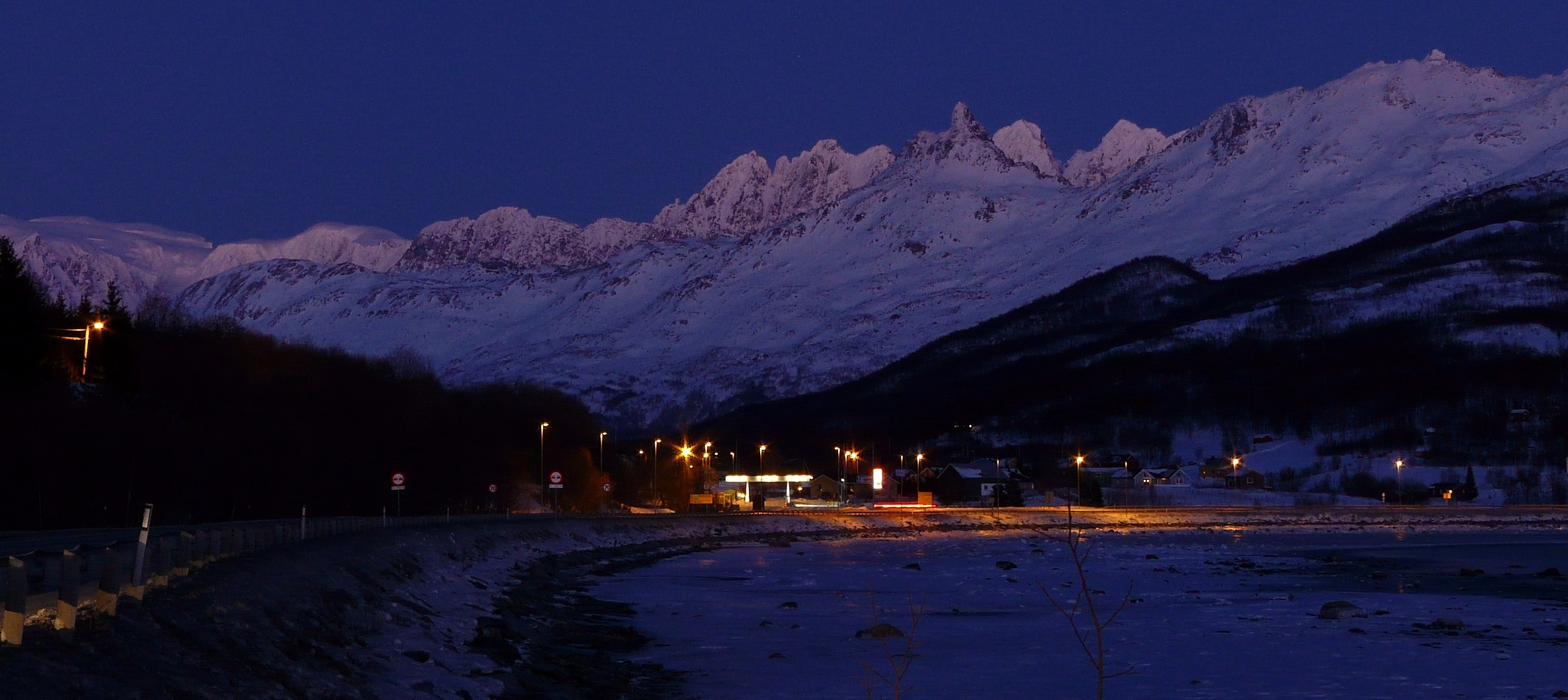 The village of Laksvatn by the E8 road in the Balsfjord commune. Laksvatnbukta (gulf) to the right. The mountains behind are the Lakselvtindane peaks (1,616 m being the highest of the summits) and Lille Piggtinden (1,032 m). The scenery is taken after the sunset in 2009 February. No direct sunlight touching the summits anymore.